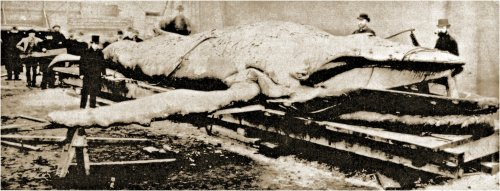 Historic photograph of Professor John Struthers (in top hat) with the Tay Whale in 1884, taken by George Washington Wilson (1823-1893) in Dundee.